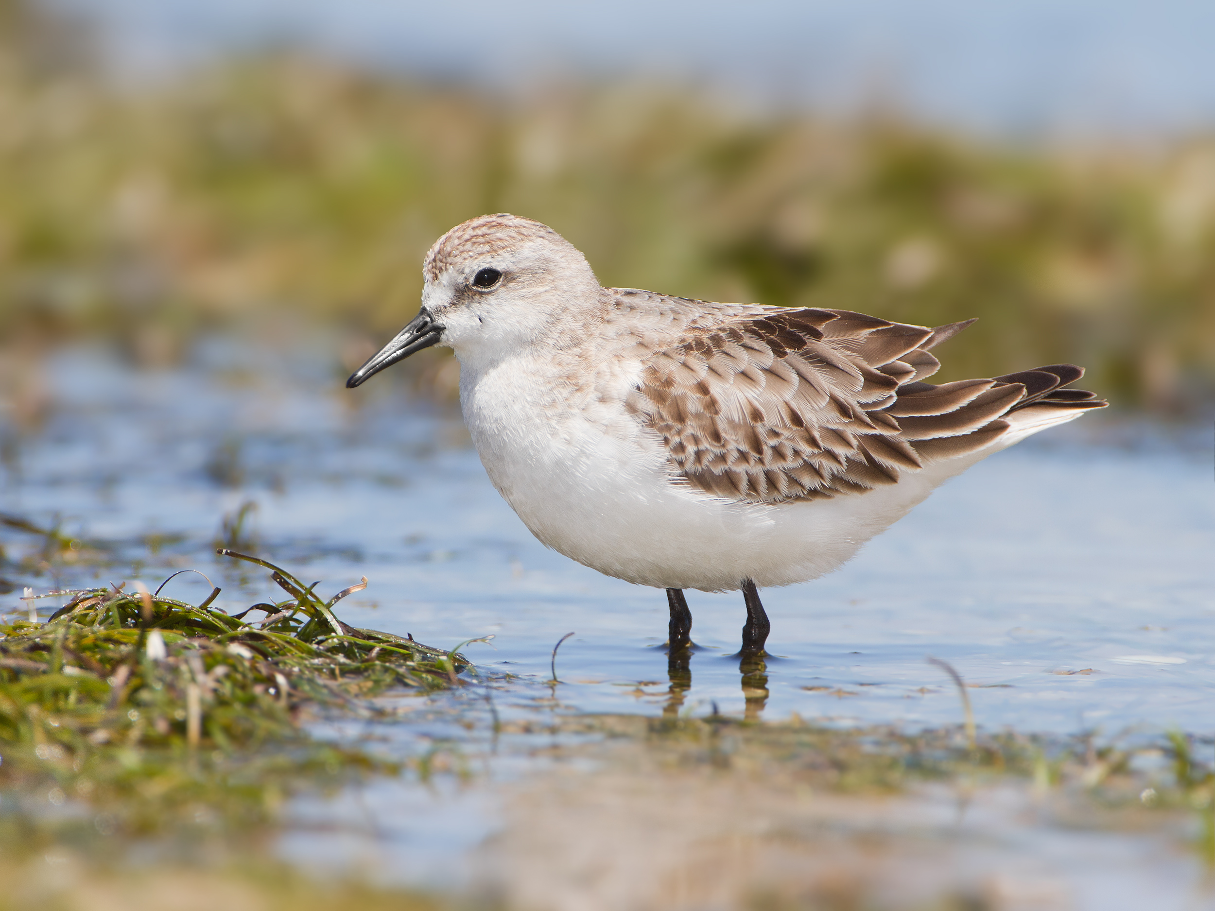 Red-necked Stint (Calidris ruficollis) winter plumage, Marion Bay, Tasmania, Australia.